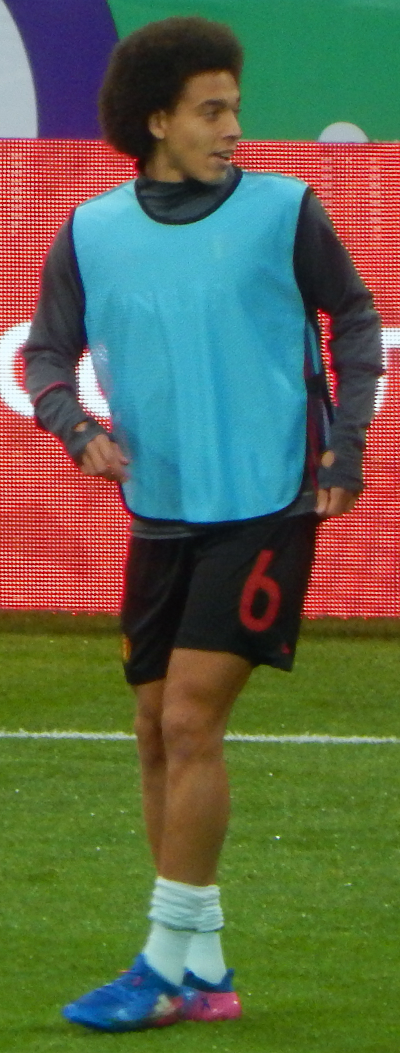 This photo was taken on March 28, 2017 during the exhibition game between Russia and Belgium. That game was held in Adler (City of Sochi) at the Fisht stadium.